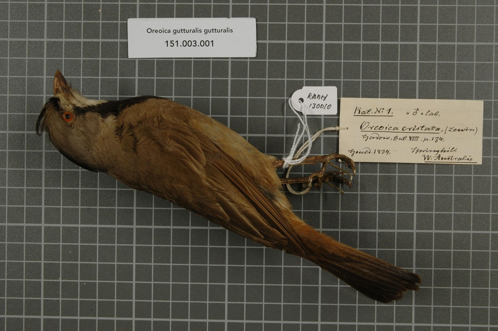 Oreoica gutturalis gutturalis (Vigors & Horsfield, 1827)